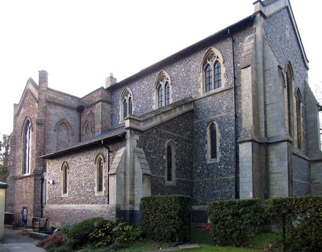 St Peter, Arkley, Herts